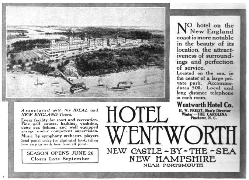 1915 Advertisement for the Hotel Wentworth Portsmouth, New Hampshire.